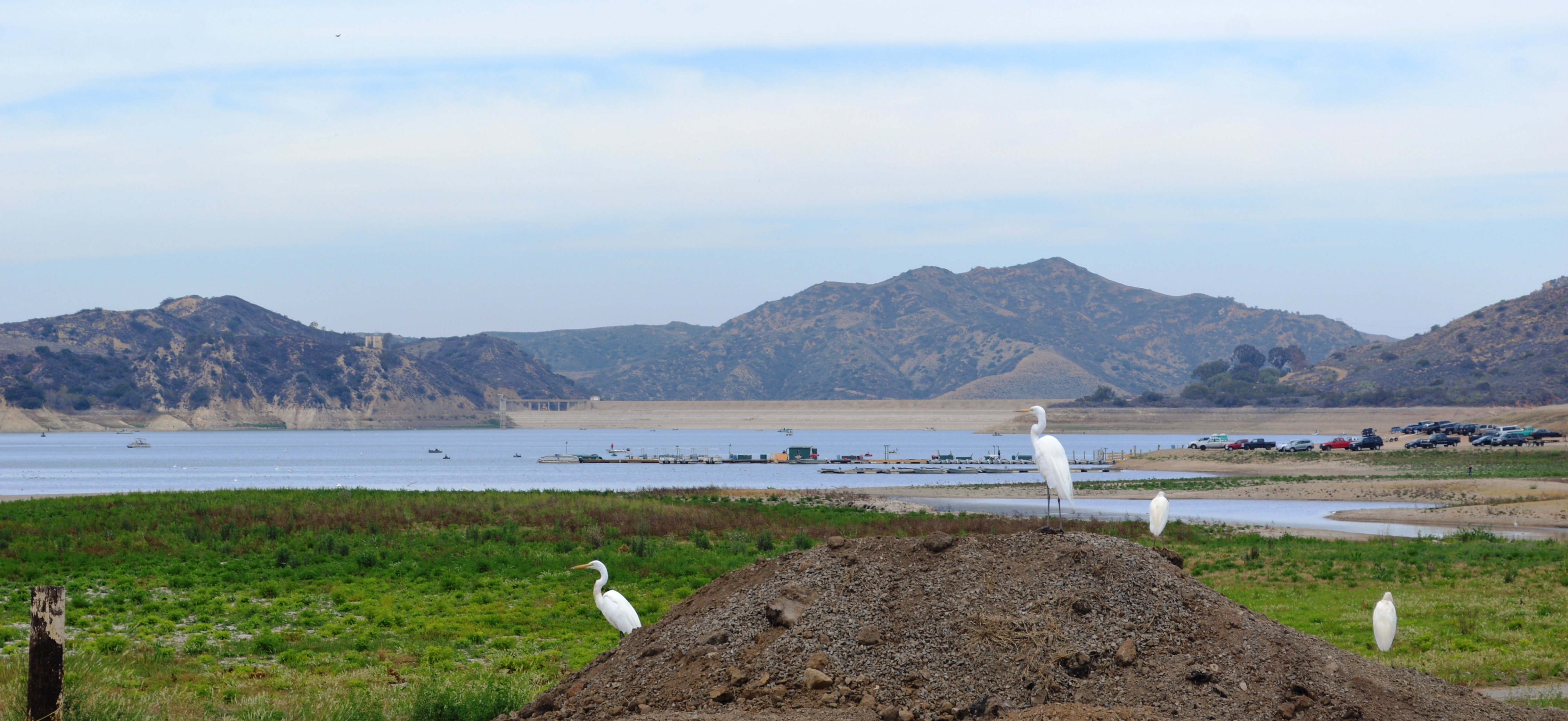 Great Egrets (Ardea alba) at Irvine Lake in Orange County, California, U.S.A.